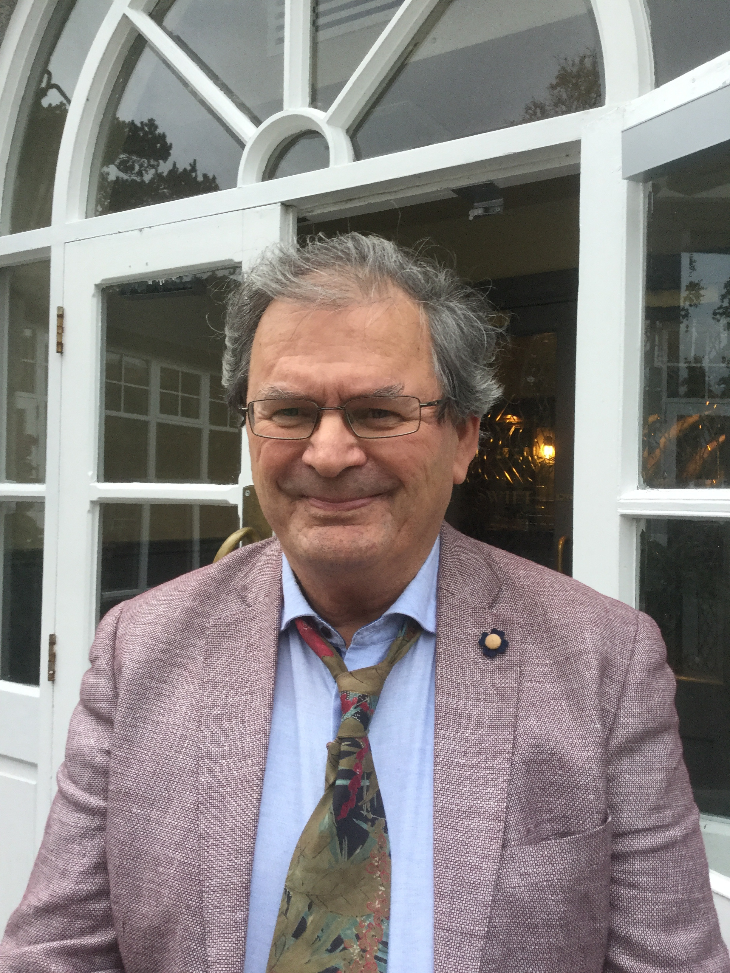 Poet. writer. editor. translator